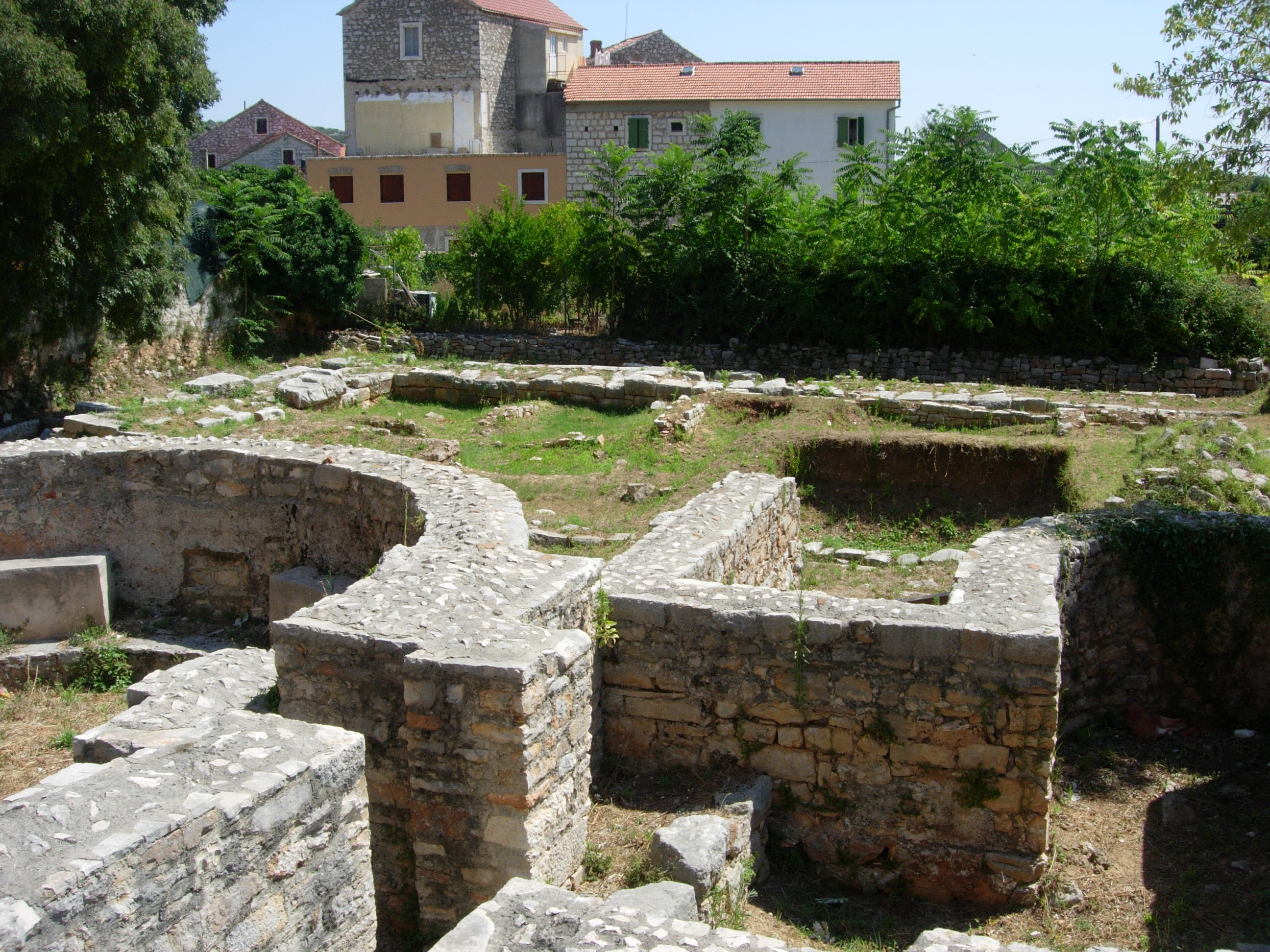 Archaelogical site in Stari Grad next to Church of St. John (Crkva sv. Ivan).